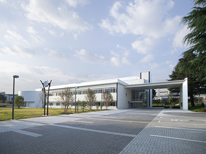 View of itabashi campus